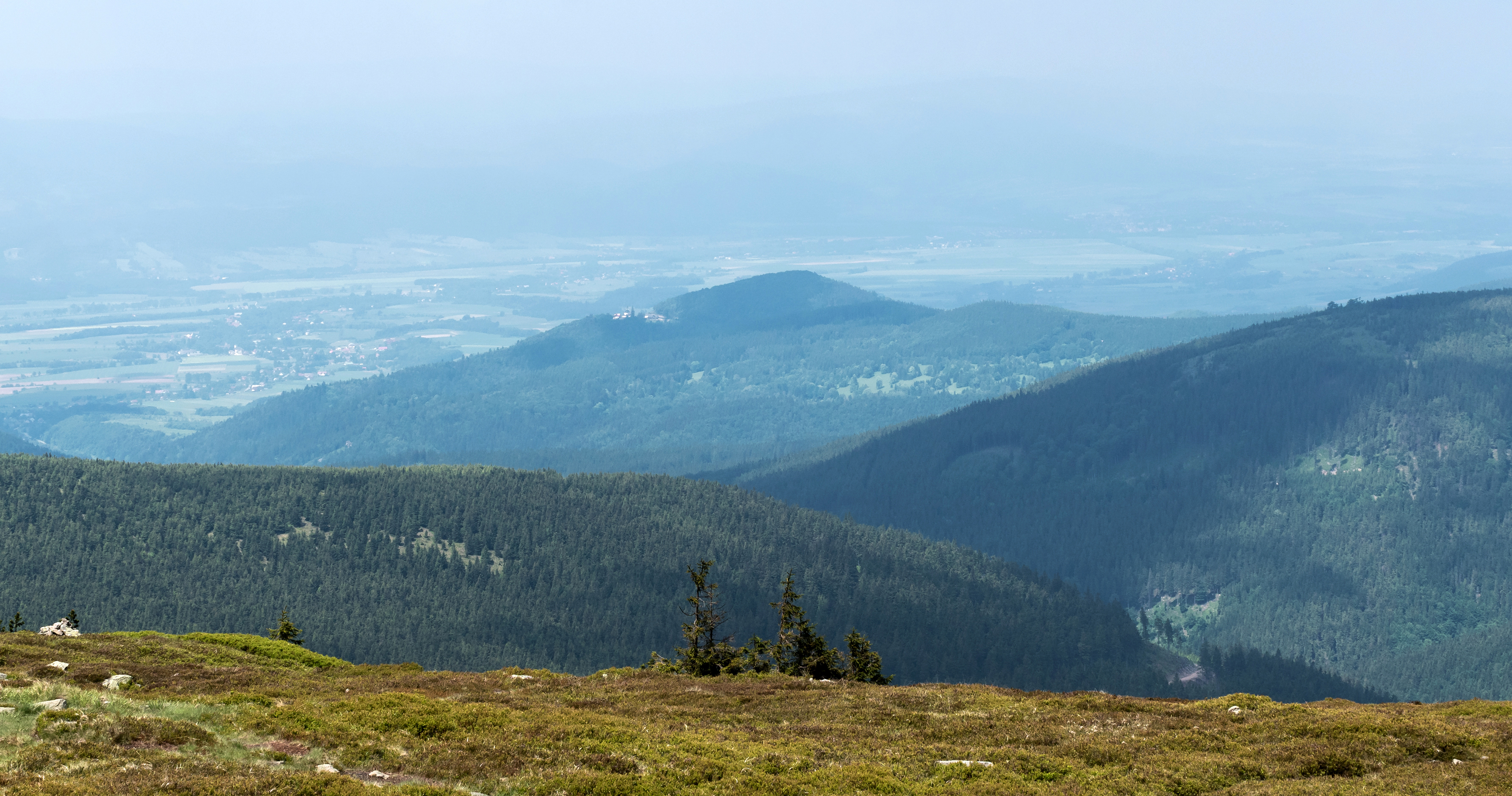 Igliczna, Śnieżnik Mountains, Sudetes